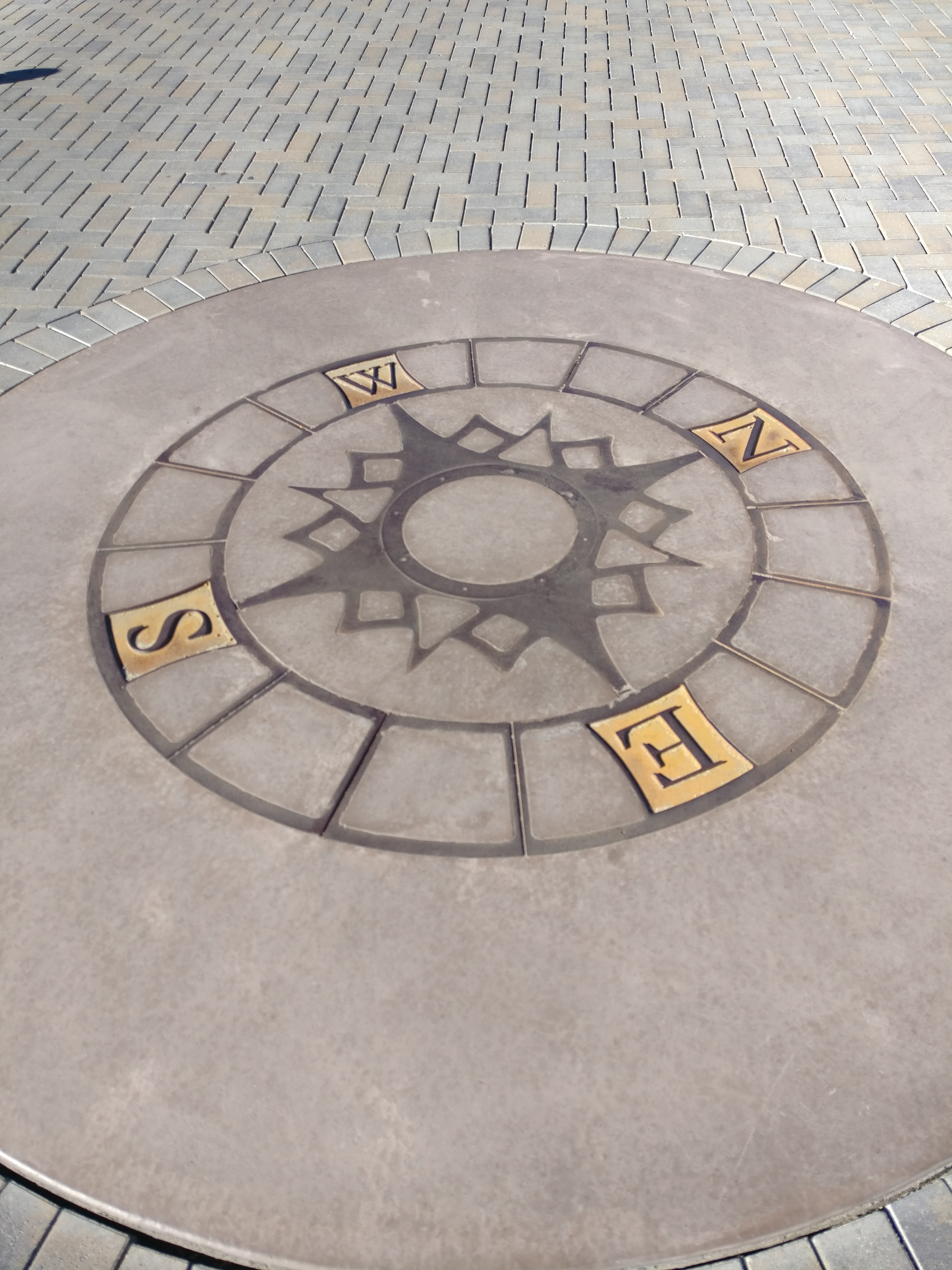 A compass rose on the grounds of the bespoke Bown Library branch in southeast Boise, Idaho serves as a pedagogical device.